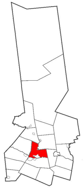 Map of Herkimer County highlighting Herkimer Town